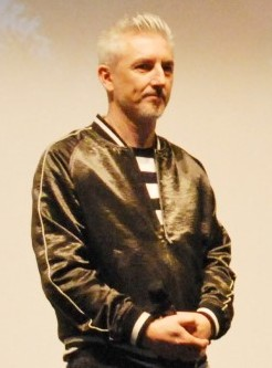 Saturday, September 10, 2016 at the Ryerson Theatre in Toronto, Canada